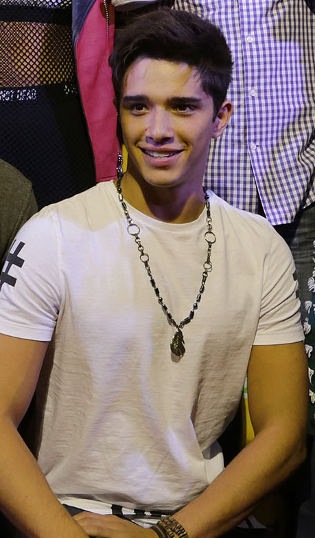 Baires. Diciembre 21 de 2014. El jefe de Gobierno porteño, Mauricio Macri, saludó hoy a la artista juvenil Martina “Tini” Stoessel, quien fue la máxima atracción del Eco Fashion Show que se realizó en Parque de San Benito (Figueroa Alcorta y La Pampa) como parte de la tarea que realiza la Ciudad para concientizar sobre el cuidado del medioambiente.Foto Monica martinez-gv/GCBA.